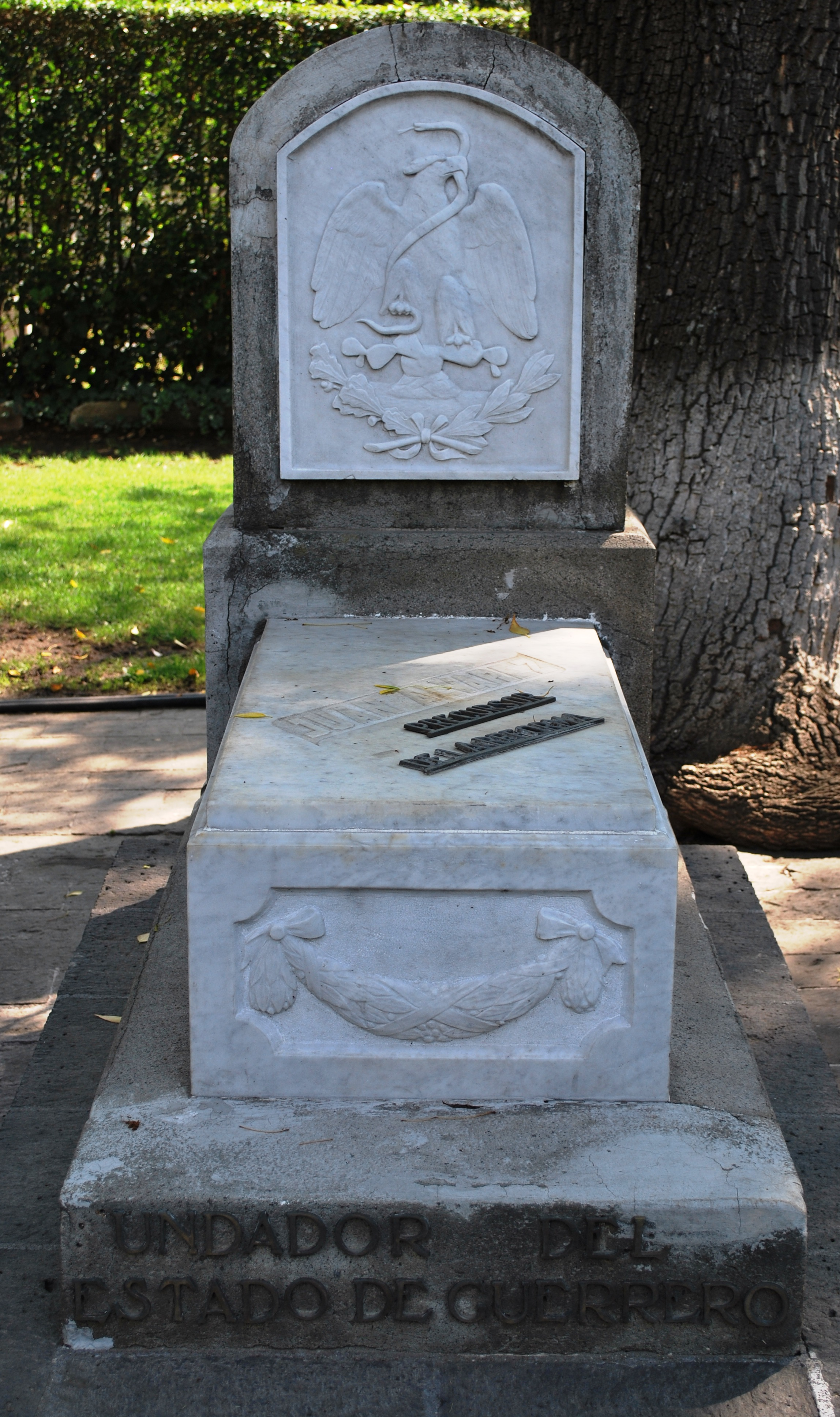 Tomb of Juan Alvarez in the Panteon Civil de Dolores cemetery in Mexico City